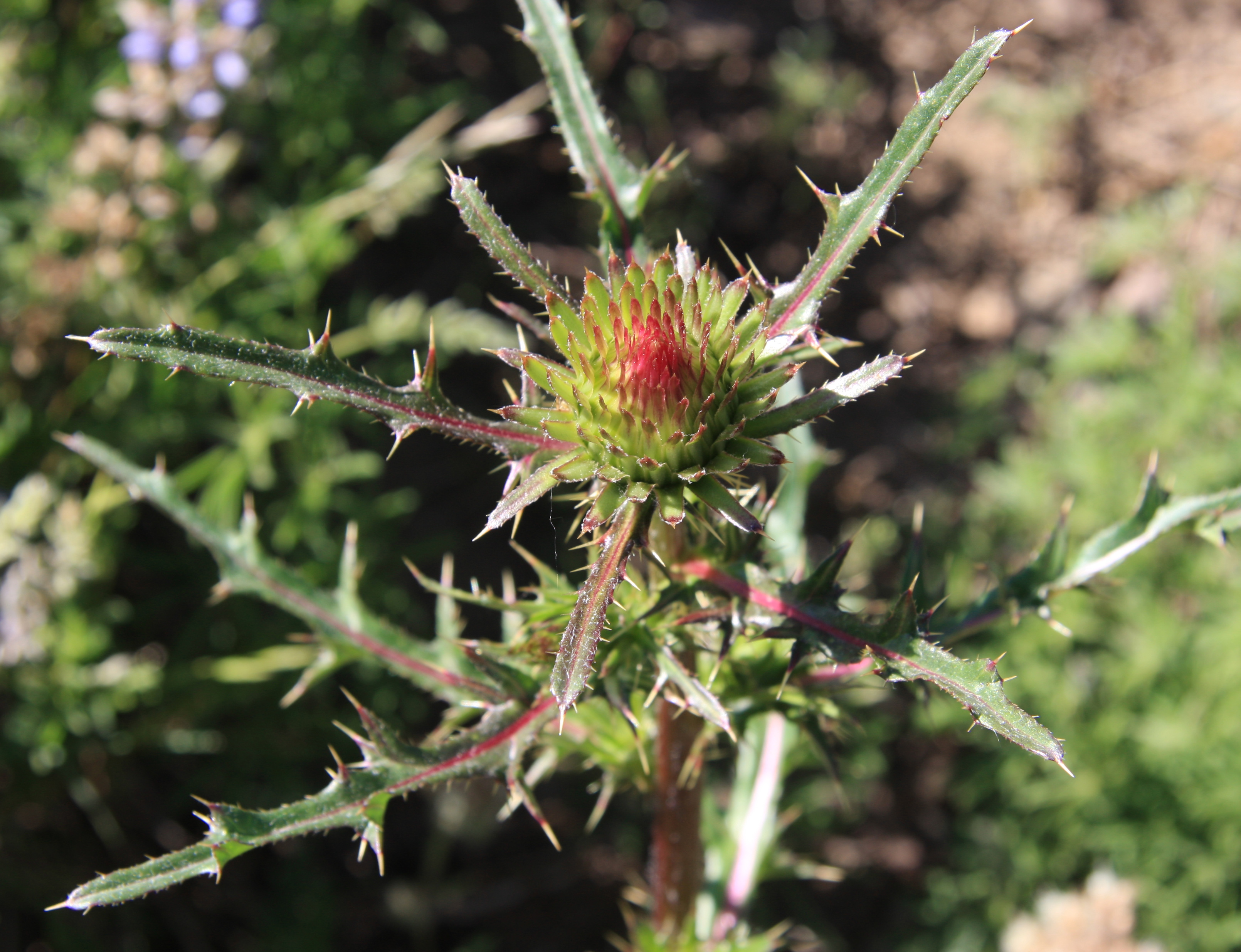 Anderson's thistle (Cirsium andersonii), closeup of bud and leaves. At 9700ft along High Trail (part of Pacific Crest Trail) just below Agnew Pass, Ansel Adams Wilderness, California.